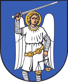 Coat of Arms of Ohrdruf